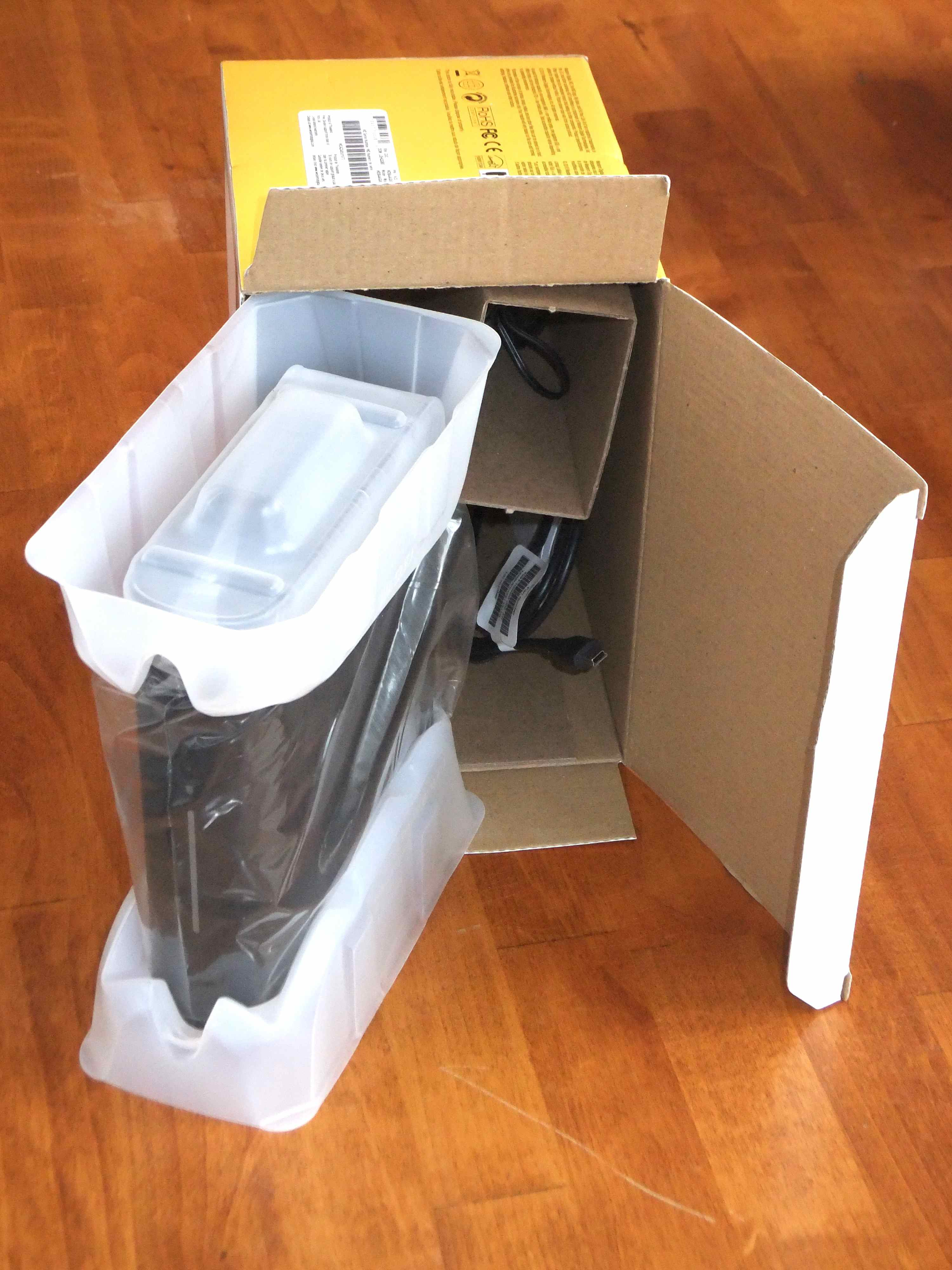 Hard drive with thermoformed plastic cushioning and corrugated box